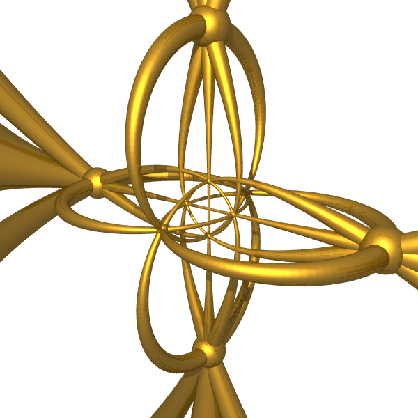 Pentacross, wireframe and projected